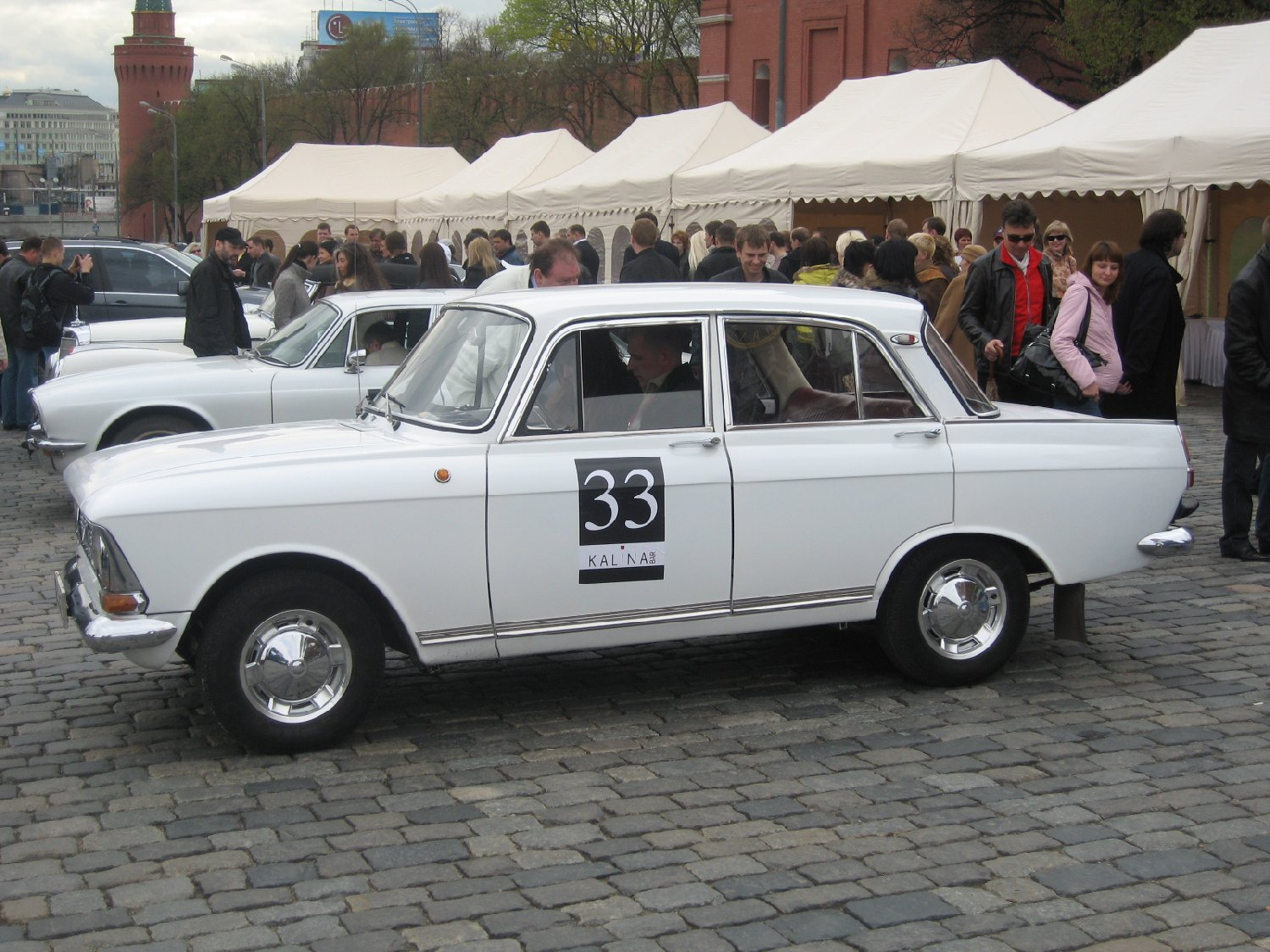 AZLK Moskvitch-412IE, built in 1975, with extra ELITE trim